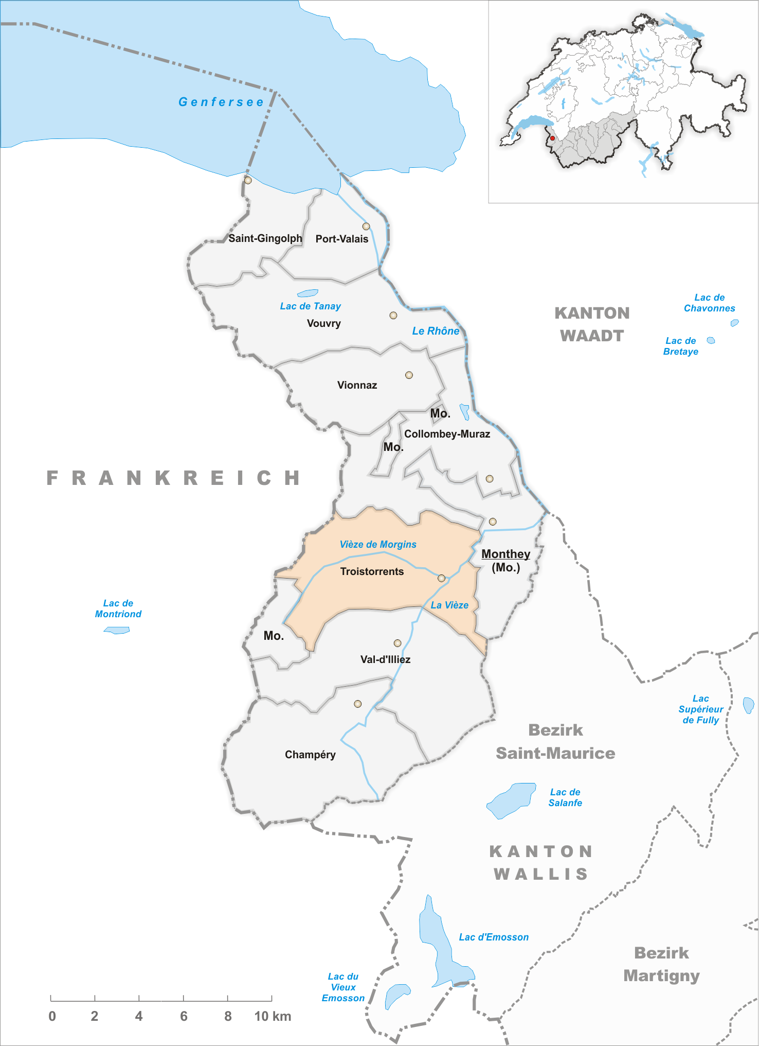 Municipality Troistorrents